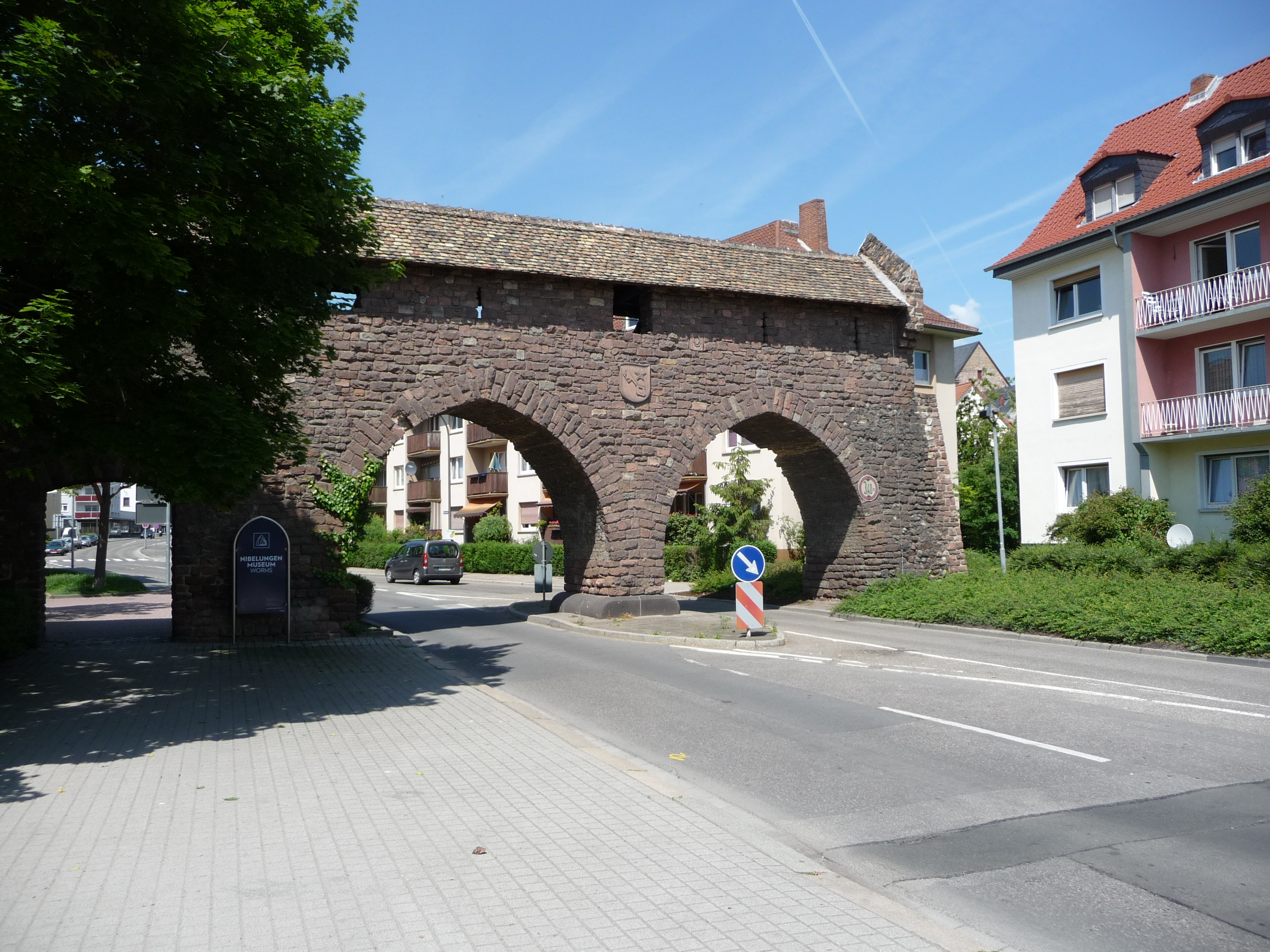 City walls of Worms